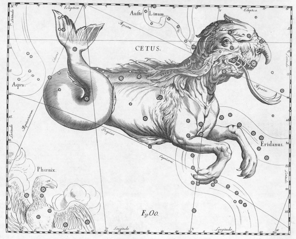 The Cetus constellation from Uranographia by Johannes Hevelius. The view is mirrored following the tradition of celestial globes, showing the celestial sphere in a view from "ouside"